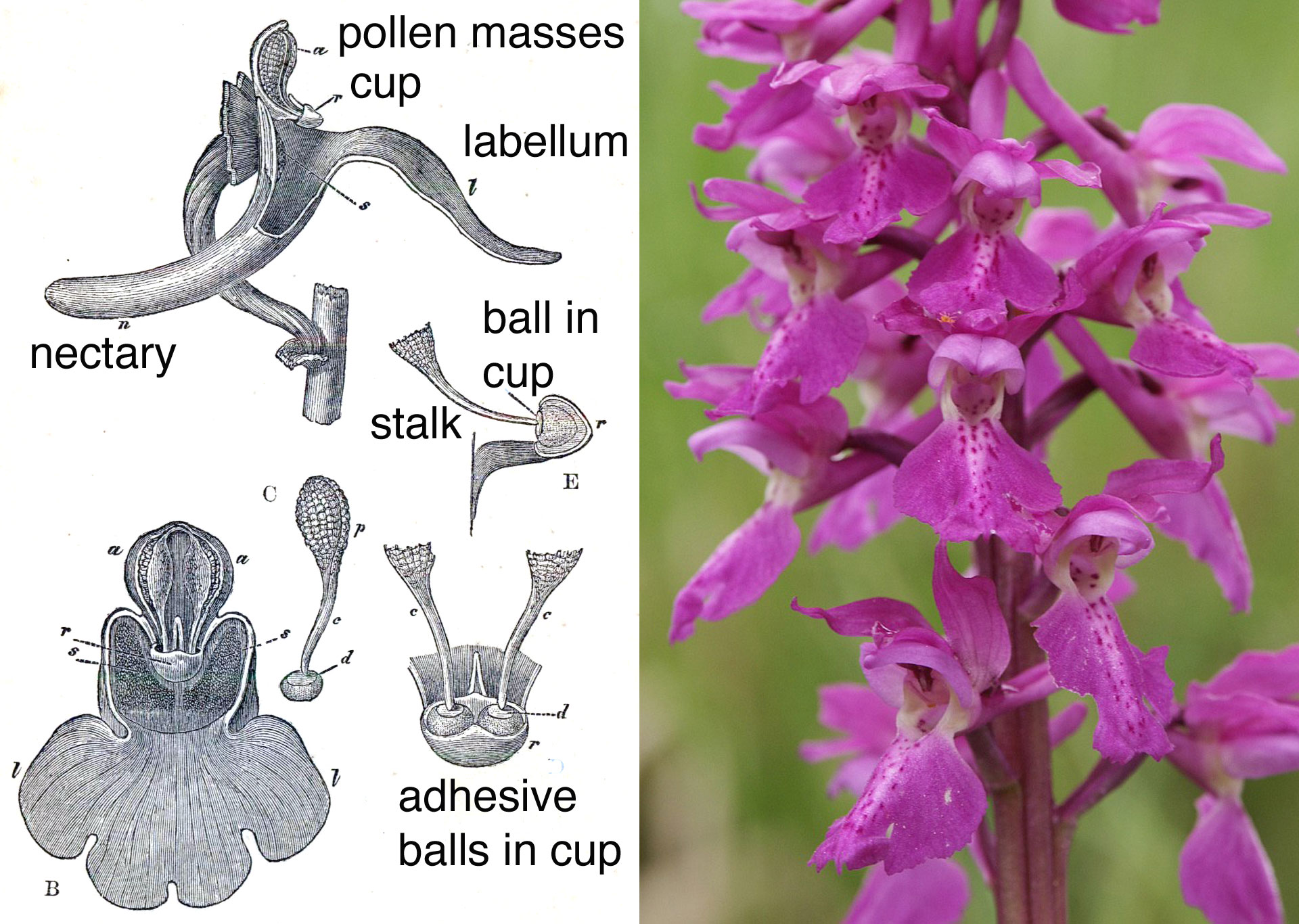 Figure 1 from the 1877 edition of Charles Darwin's Fertilisation of Orchids. Scanned from a copy of the work at the University of Massachusetts Amherst.